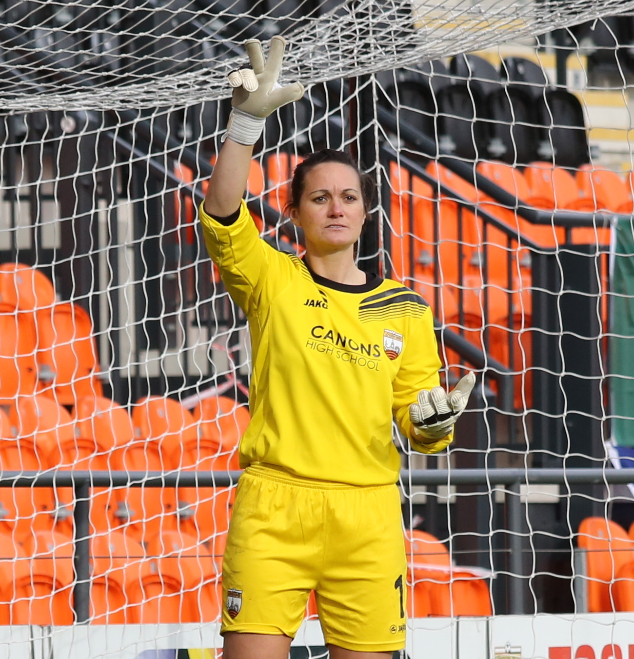 London Bees v Millwall Lionesses, 28 October 2017